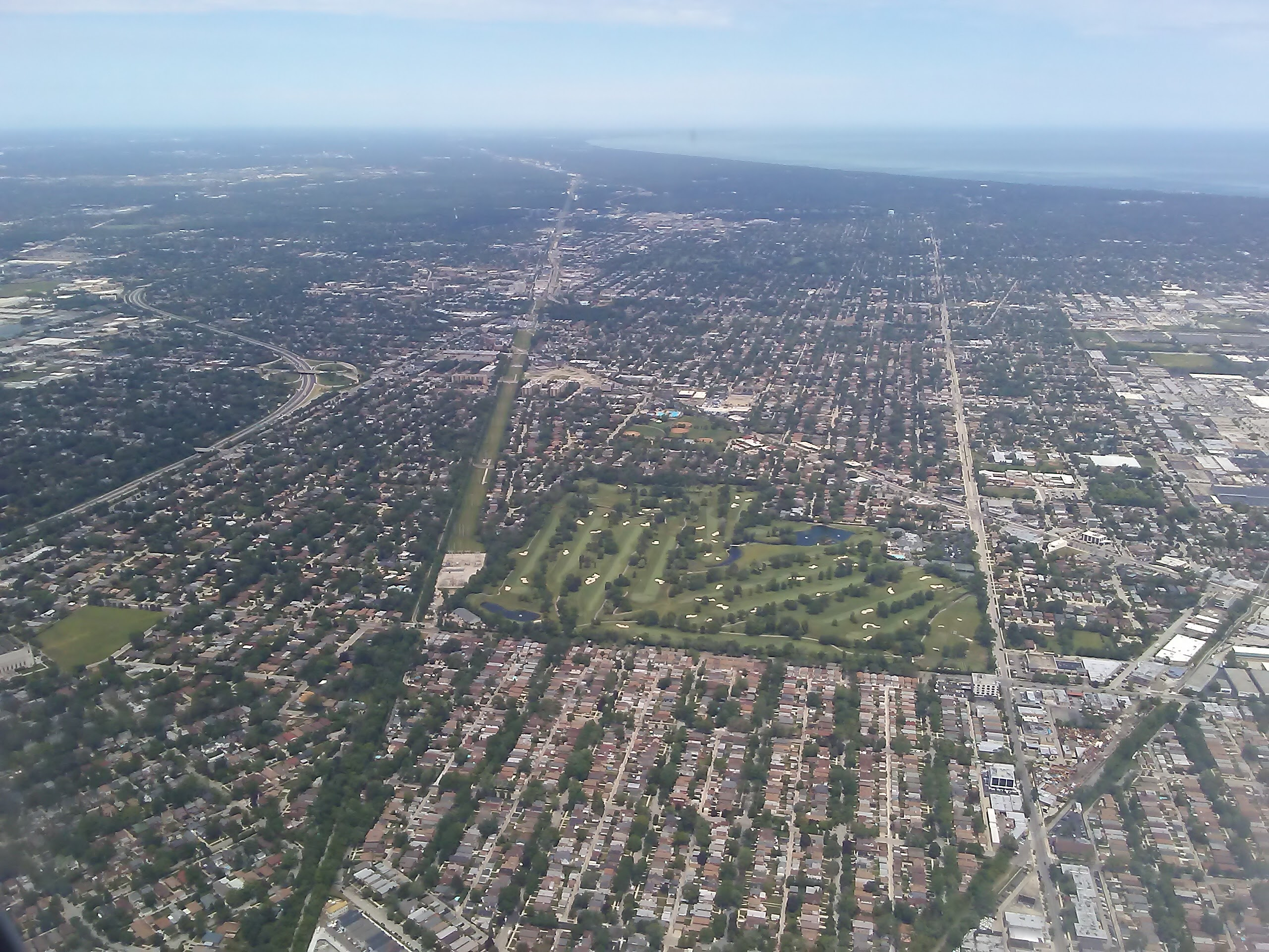 O'Hare Airport and Chicago, Illinois